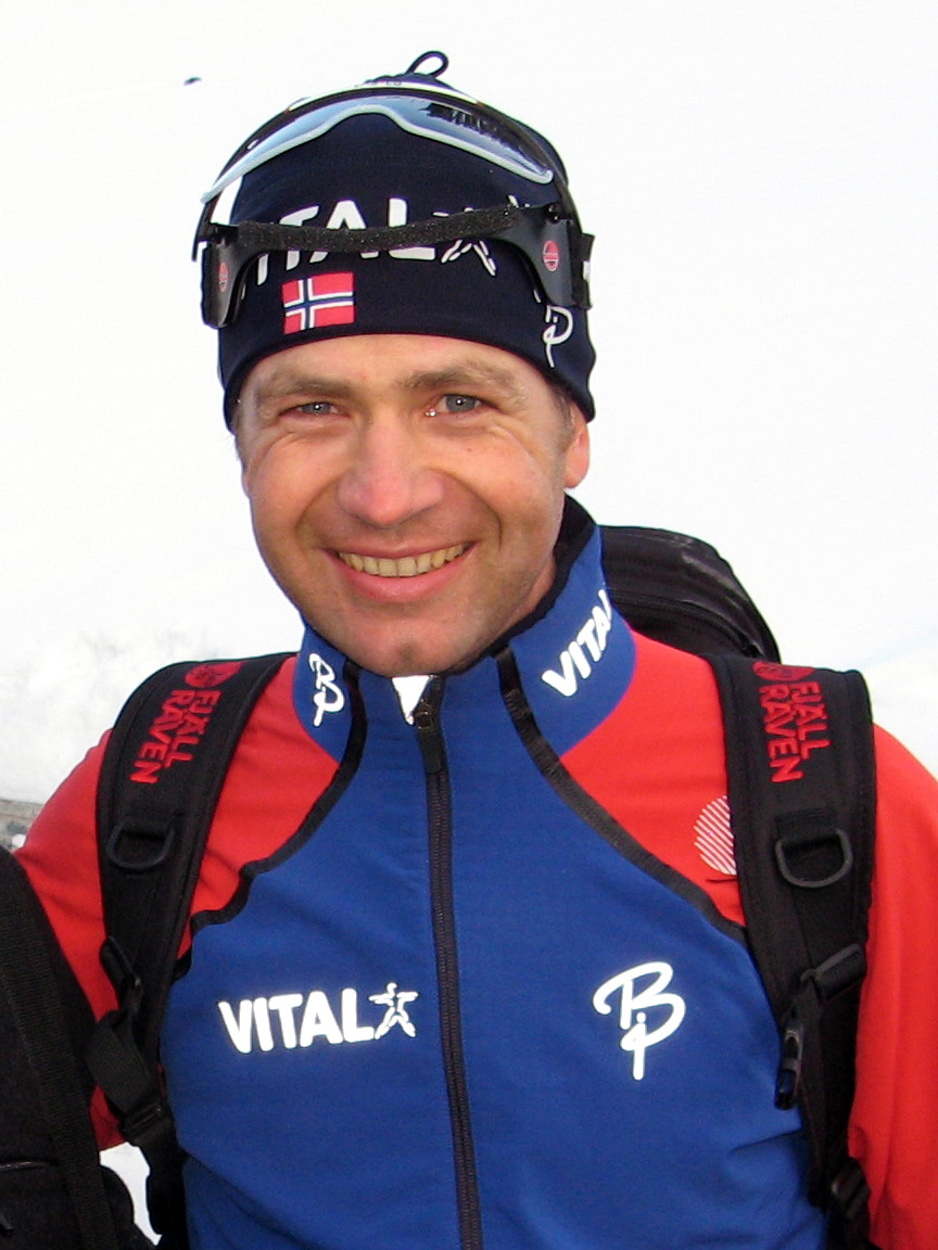 Ole ЮлтяBjoerndalen, Norwegian biathlete, Olympic champion